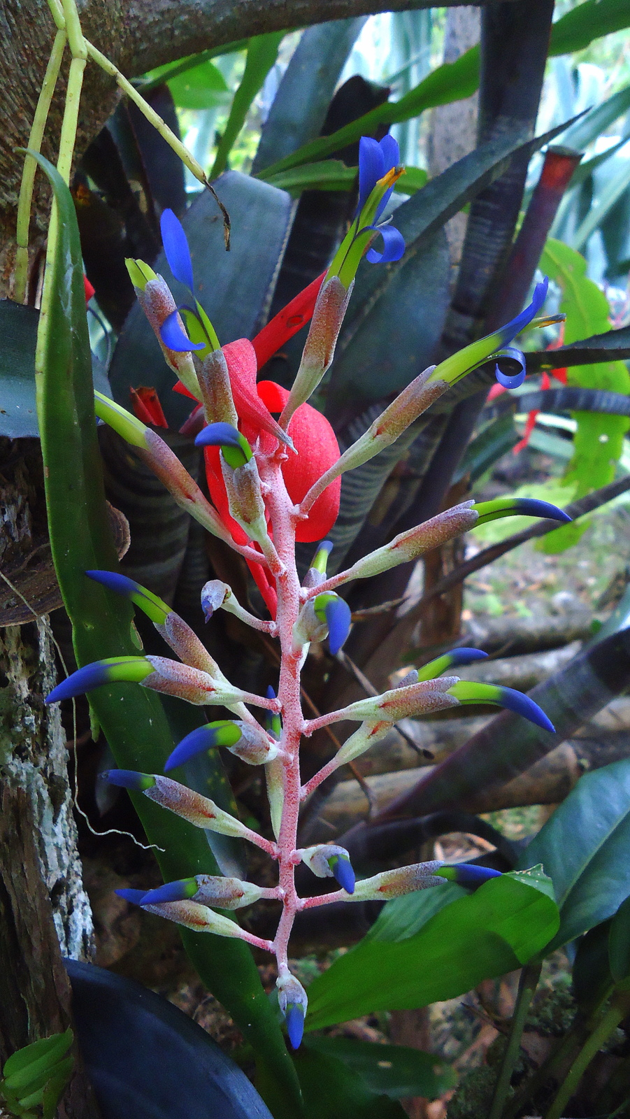 Billbergia chlorosticta Saunders Hortus